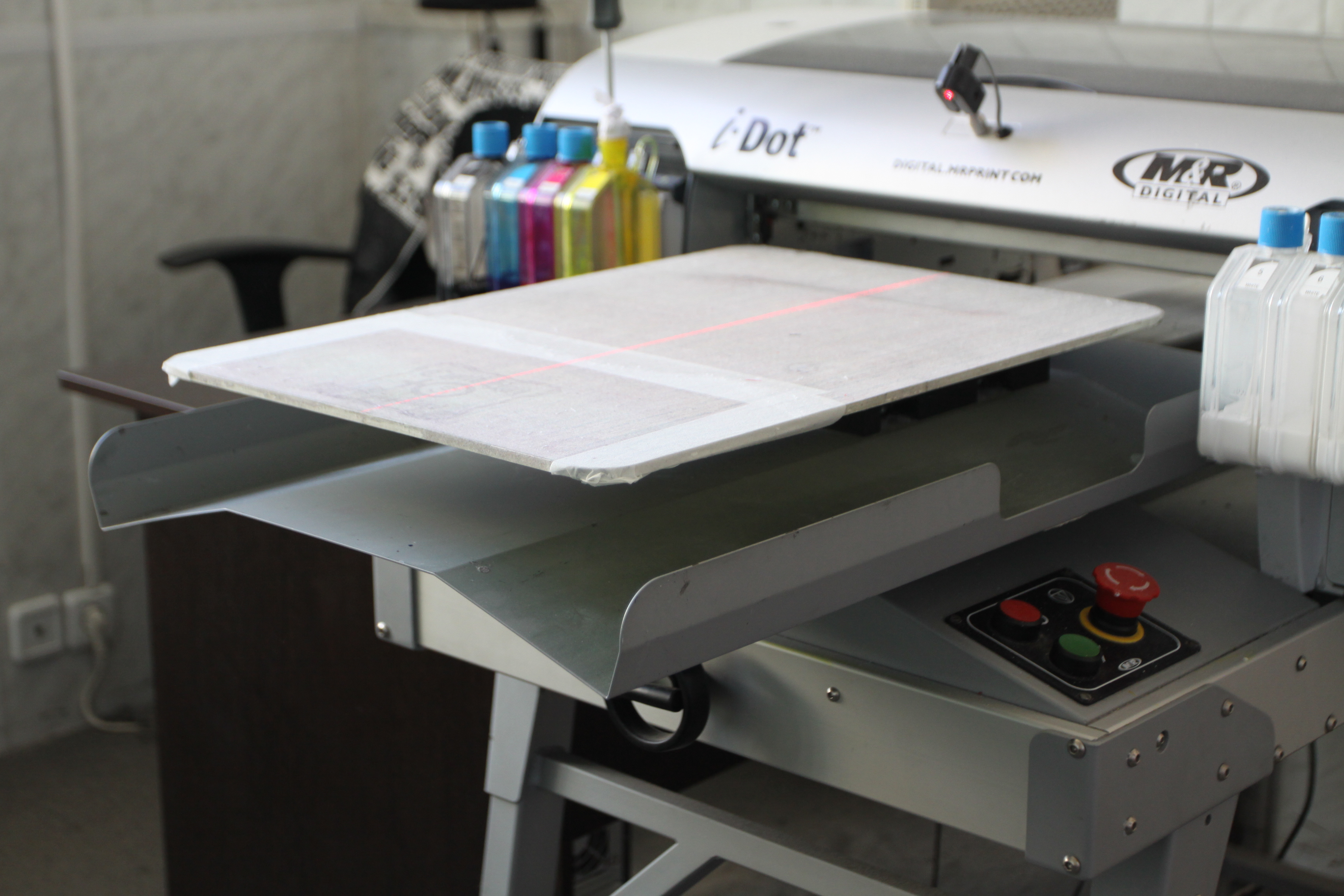 I-DOT